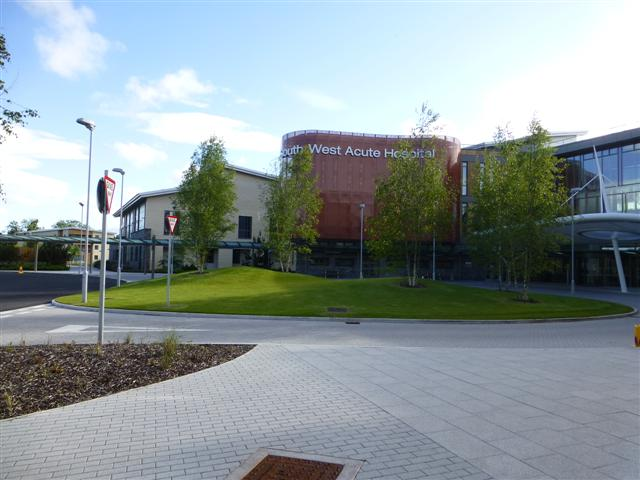 South West Acute Hospital near Enniskillen